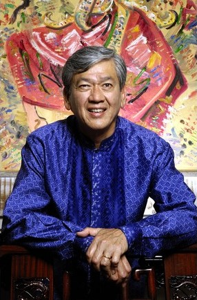 Edwin